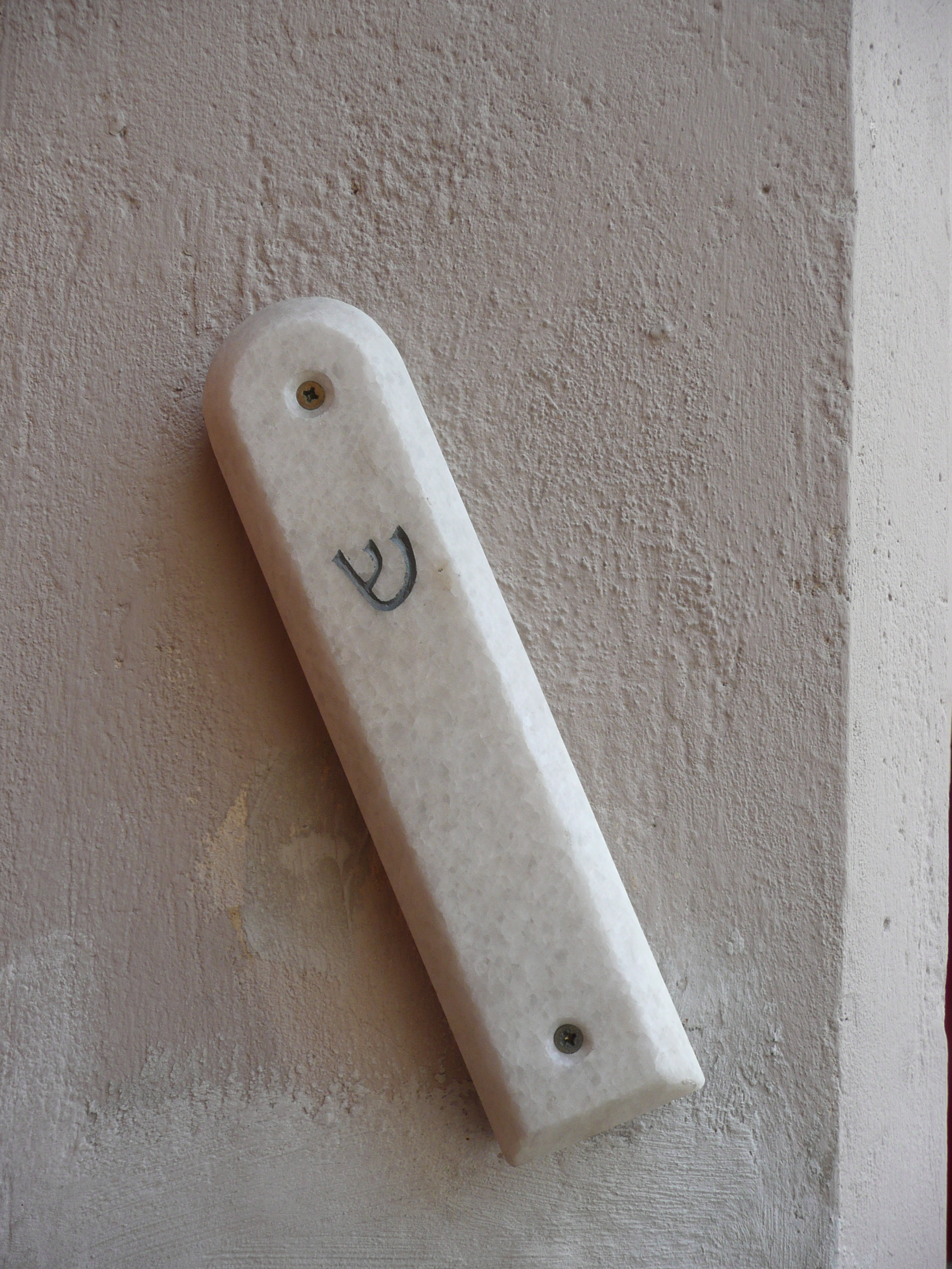 Mezuzah at the entrance of the Museum am Judenplatz, Vienna.